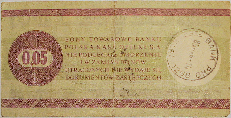 Treasury Bill - 5 cents (reverse)